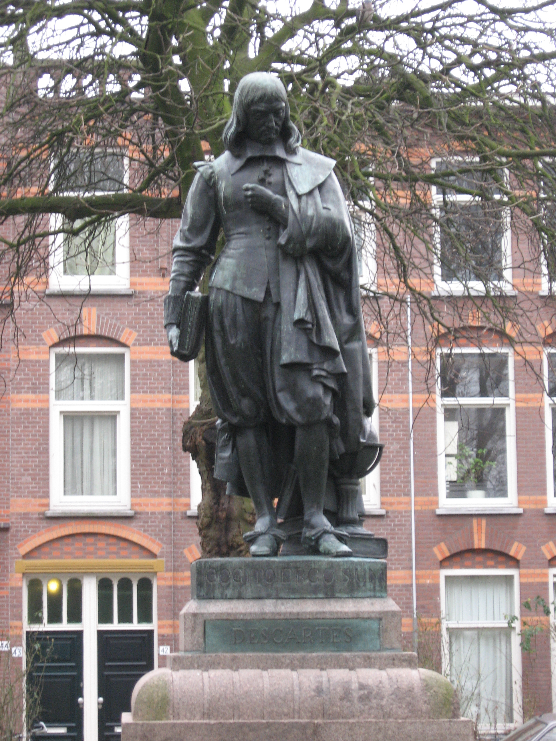 Statue of Descartes by Émilien de Nieuwerkerke, located (rather oddly) on the "Newtonplein" in The Hague, Netherlands. This "Newtonplein" (or '-plaza') has no statue of, for example, Newton.